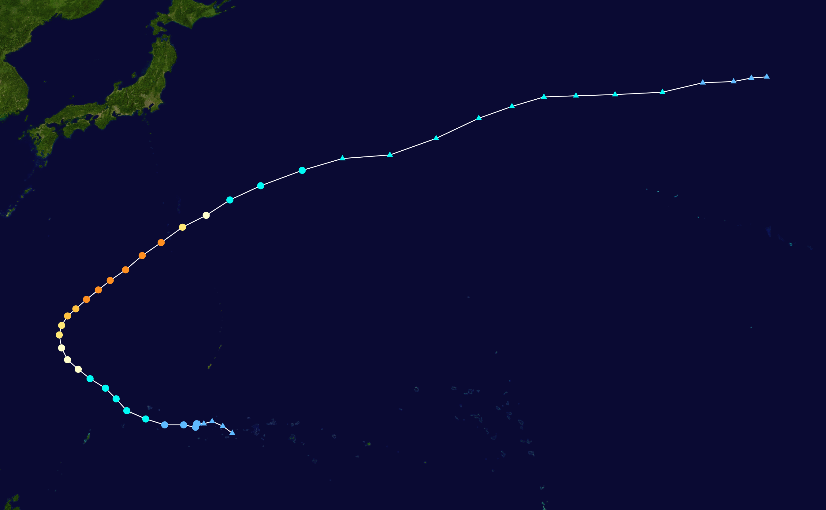 Track map of Typhoon Yutu of the 2007 Pacific typhoon season. The points show the location of the storm at 6-hour intervals. The colour represents the storm's maximum sustained wind speeds as classified in the Saffir–Simpson scale (see below), and the shape of the data points represent the nature of the storm, according to the legend below. Saffir–Simpson scale Tropical depression≤38 mph≤62 km/h Category 3111–129 mph178–208 km/h Tropical storm39–73 mph63–118 km/h Category 4130–156 mph209–251 km/h Category 174–95 mph119–153 km/h Category 5≥157 mph≥252 km/h Category 296–110 mph154–177 km/h Unknown Storm type Tropical cyclone Subtropical cyclone Extratropical cyclone / Remnant low / Tropical disturbance / Monsoon depression